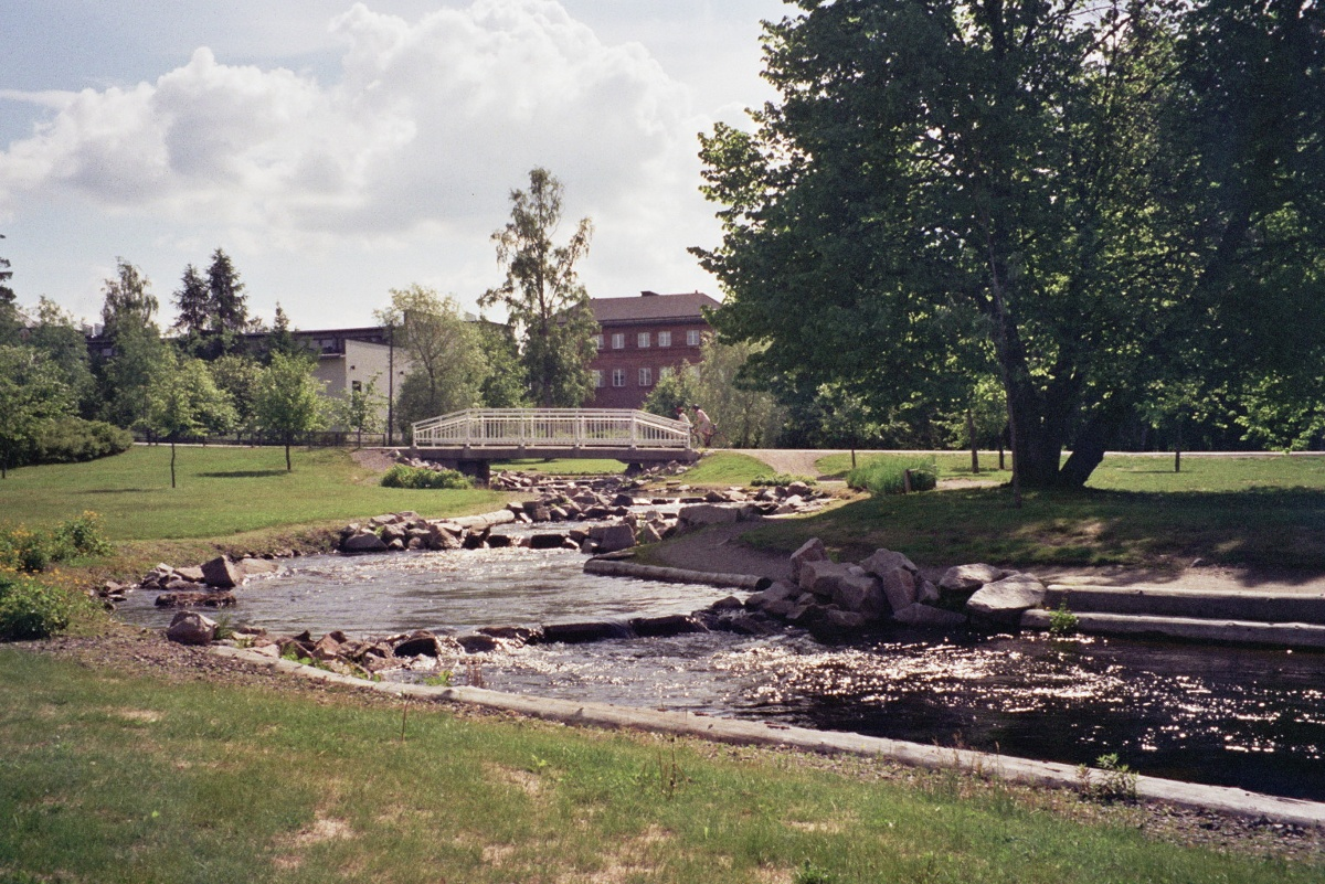 A fishway in Lasaretinsaari, Oulu, Finland, bypassing the Merikoski dam of Oulujoki.